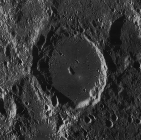 Oblique view of Hubble, on the moon.